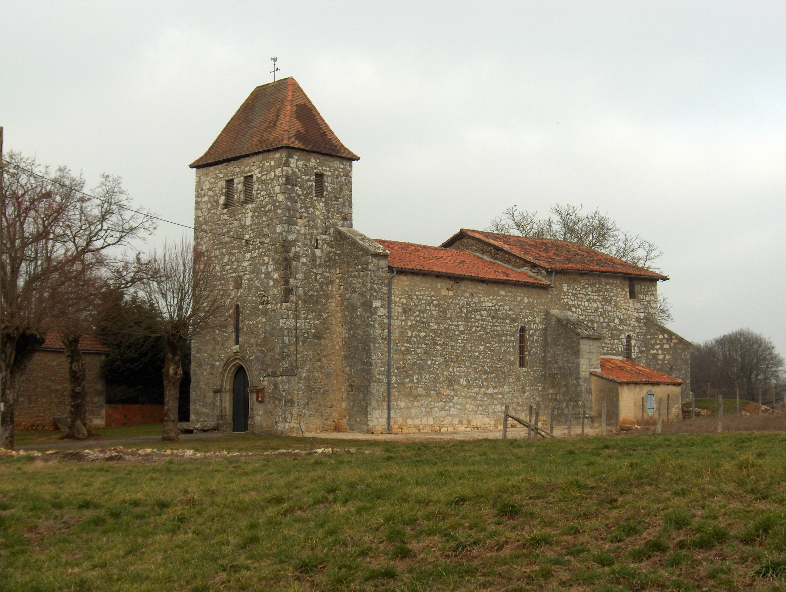 Church of Lussac - Charente - France - Europe